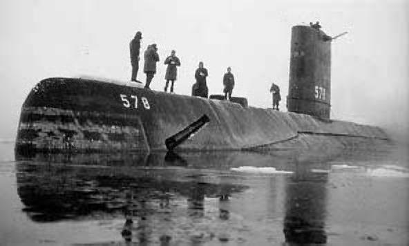 USS Skate (SSN-578) (Date and Location uncertain)